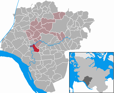 This map shows the area of the municipality Hodorf in the Kreis (district) Steinburg, Schleswig-Holstein, Germany.